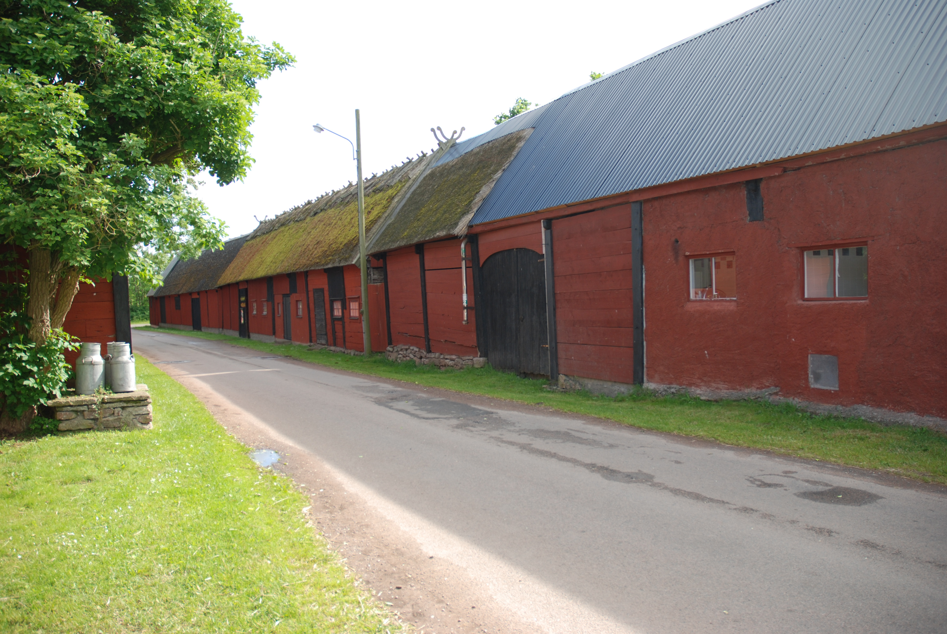 Ölands Museum at Himmelsberga, Öland, Sweden, with milk cans on a milk bridge.